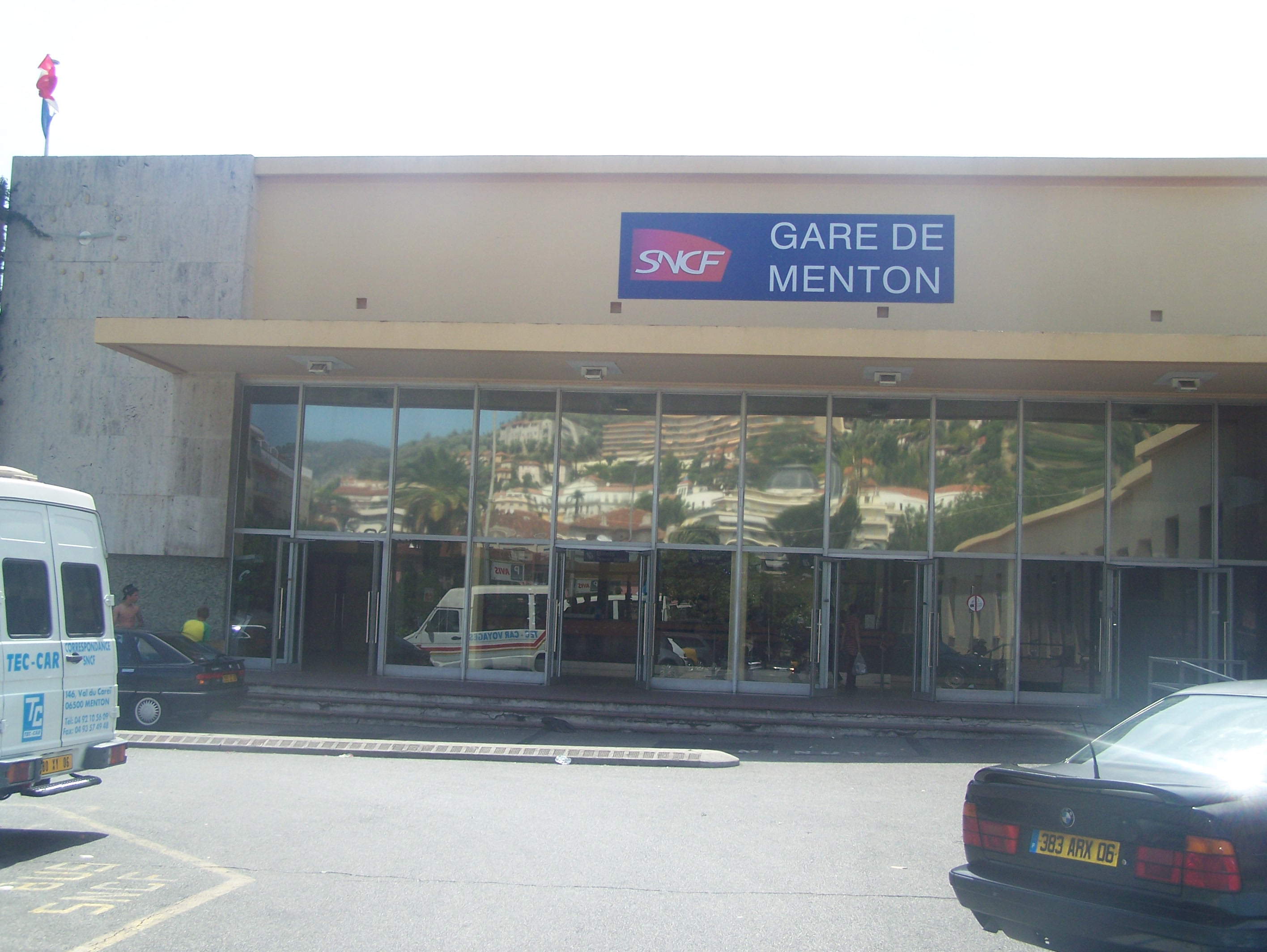 Entrance of Menton station in Alpes-Maritimes, France.